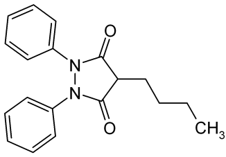 Chemical structure of phenylbutazone